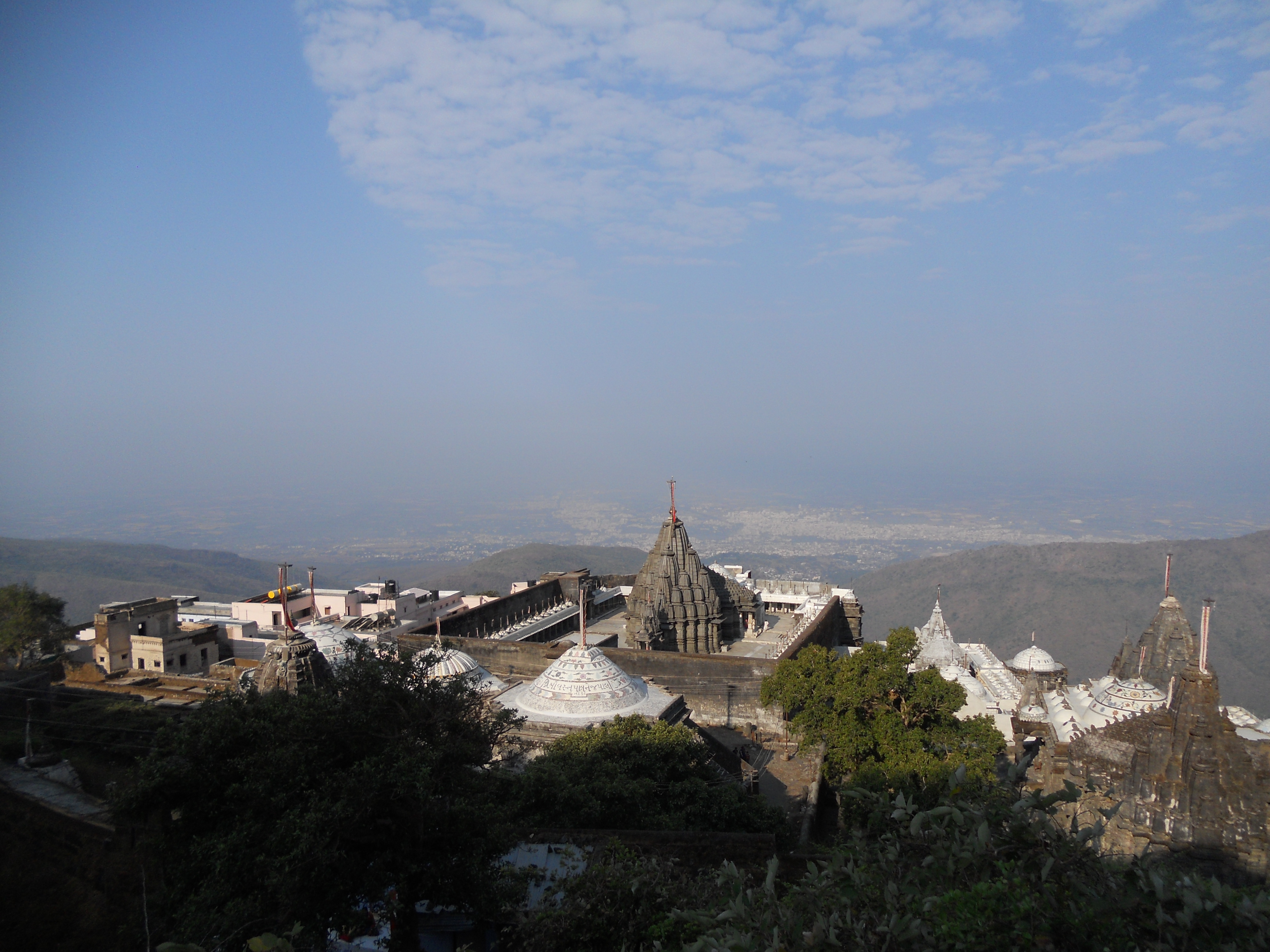 Junagadh and Jain Temple View From Girnar Pick